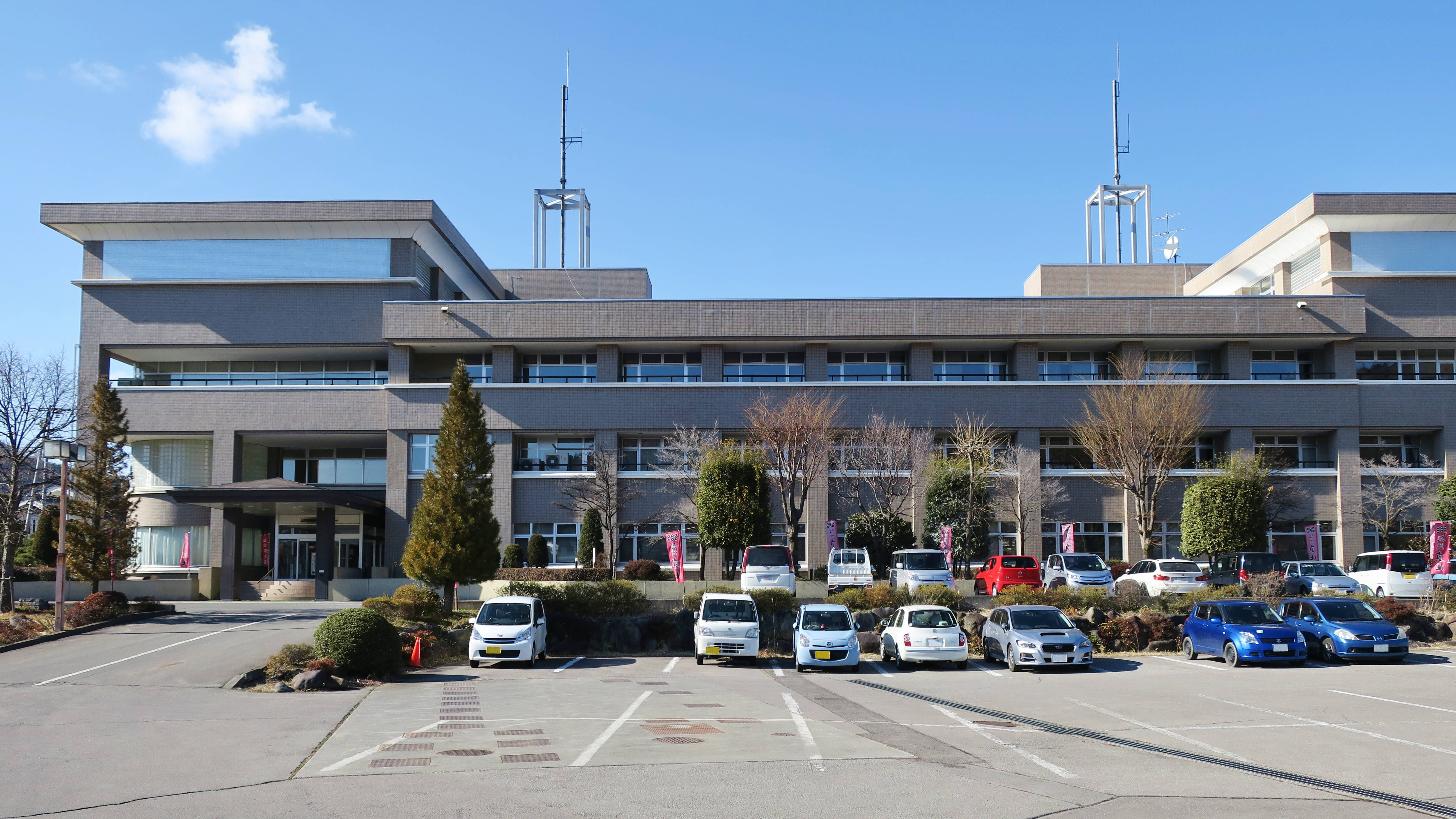 Ueda city Sanada branch office.